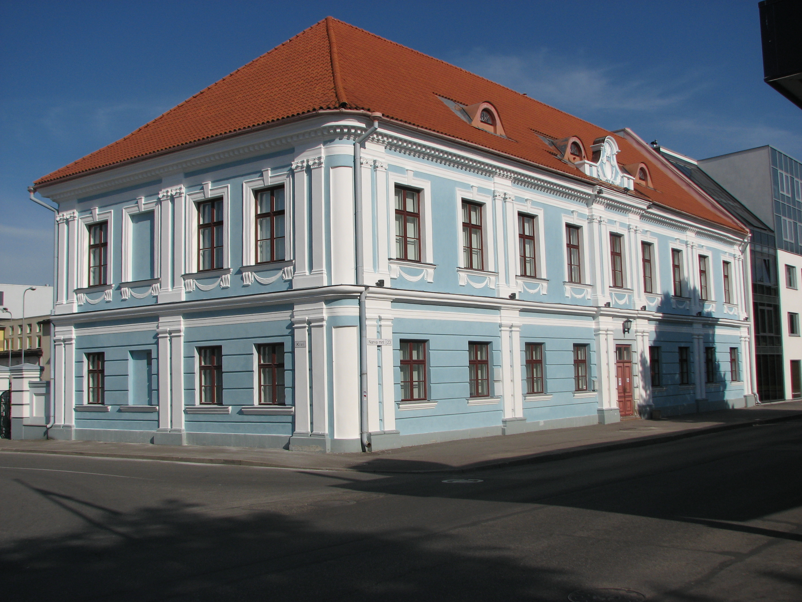 Building of the Tartu City Museum, Estonia